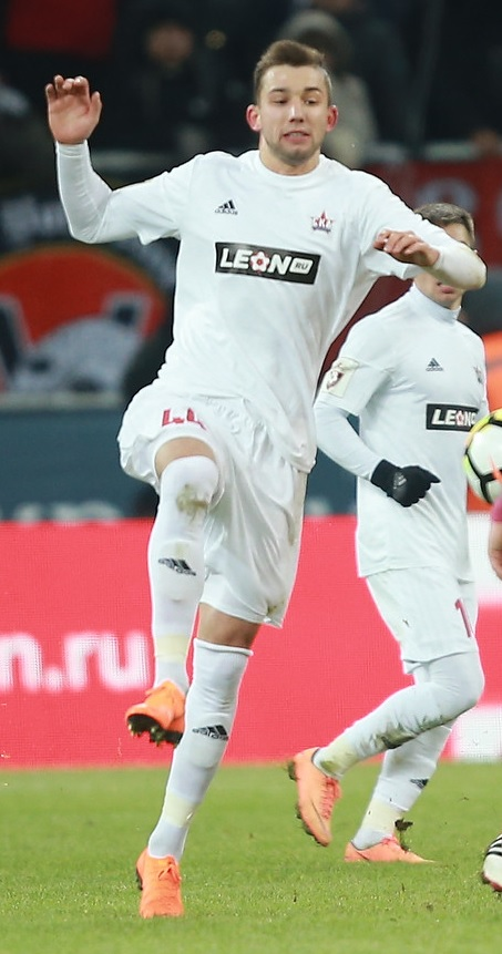 Łukasz Sekulski with FC SKA-Khabarovsk in a game against FC Spartak Moscow.